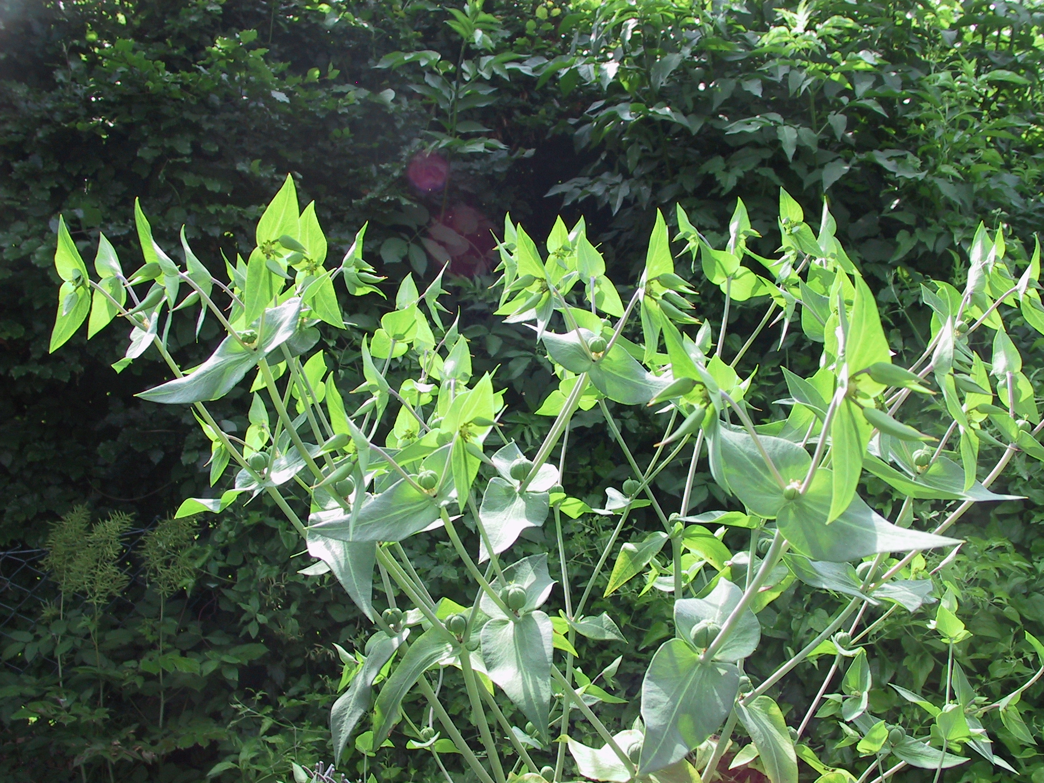 Description: Euphorbia lathyris, Salzhemmendorf (Germany) Source: self made Date: 20062406 Author = --Ruestz 15:09, 1 July 2006 (UTC)